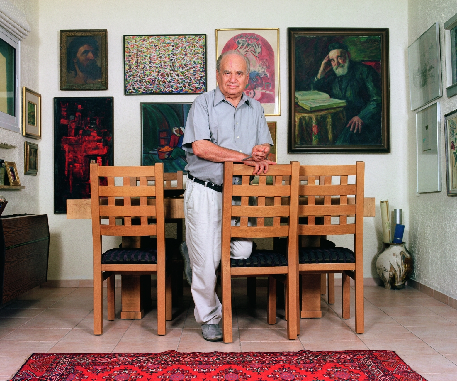 Art of Israel